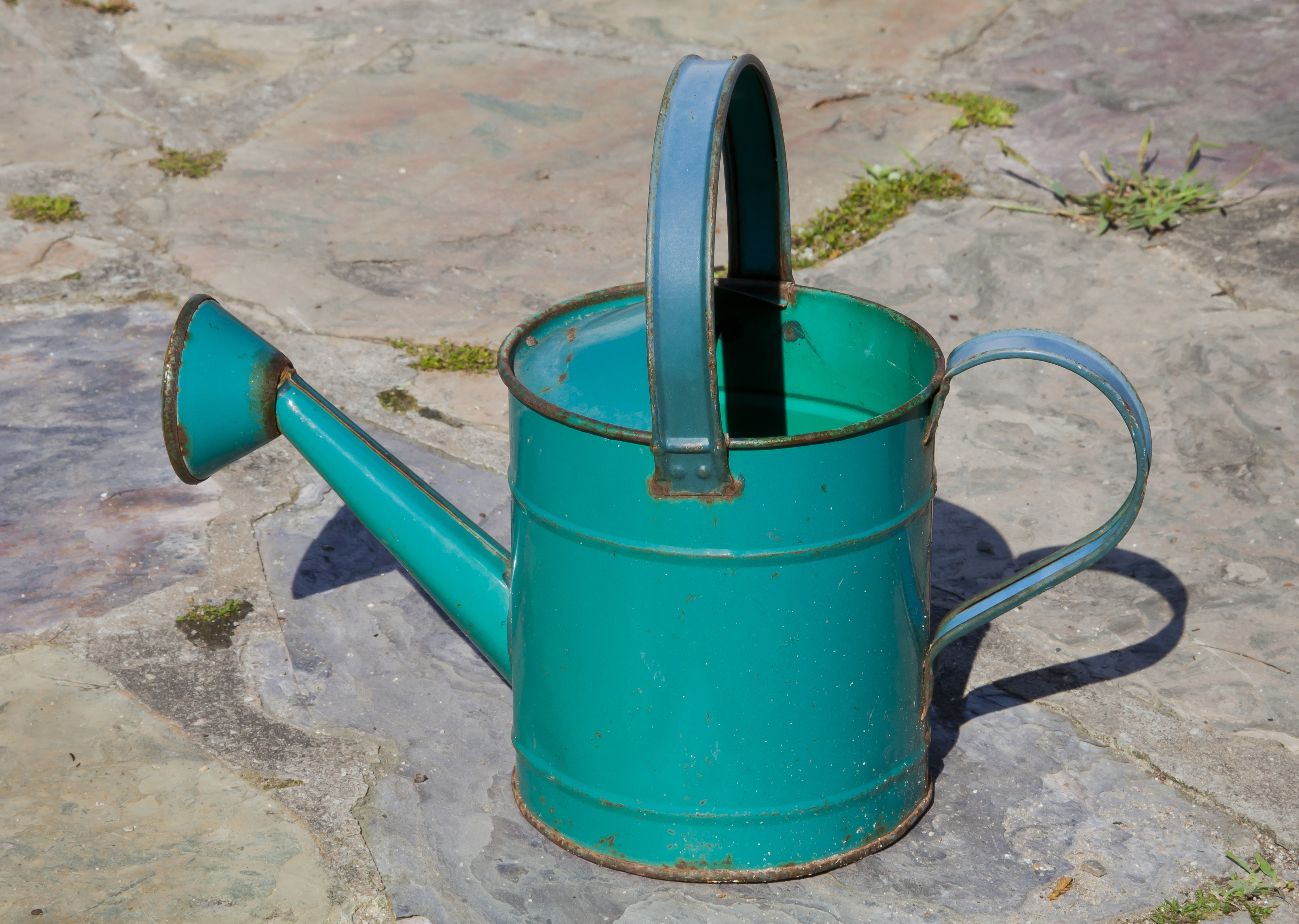 Watering can, mill garden, Sierra of Saint Philip, Setubal, Portugal